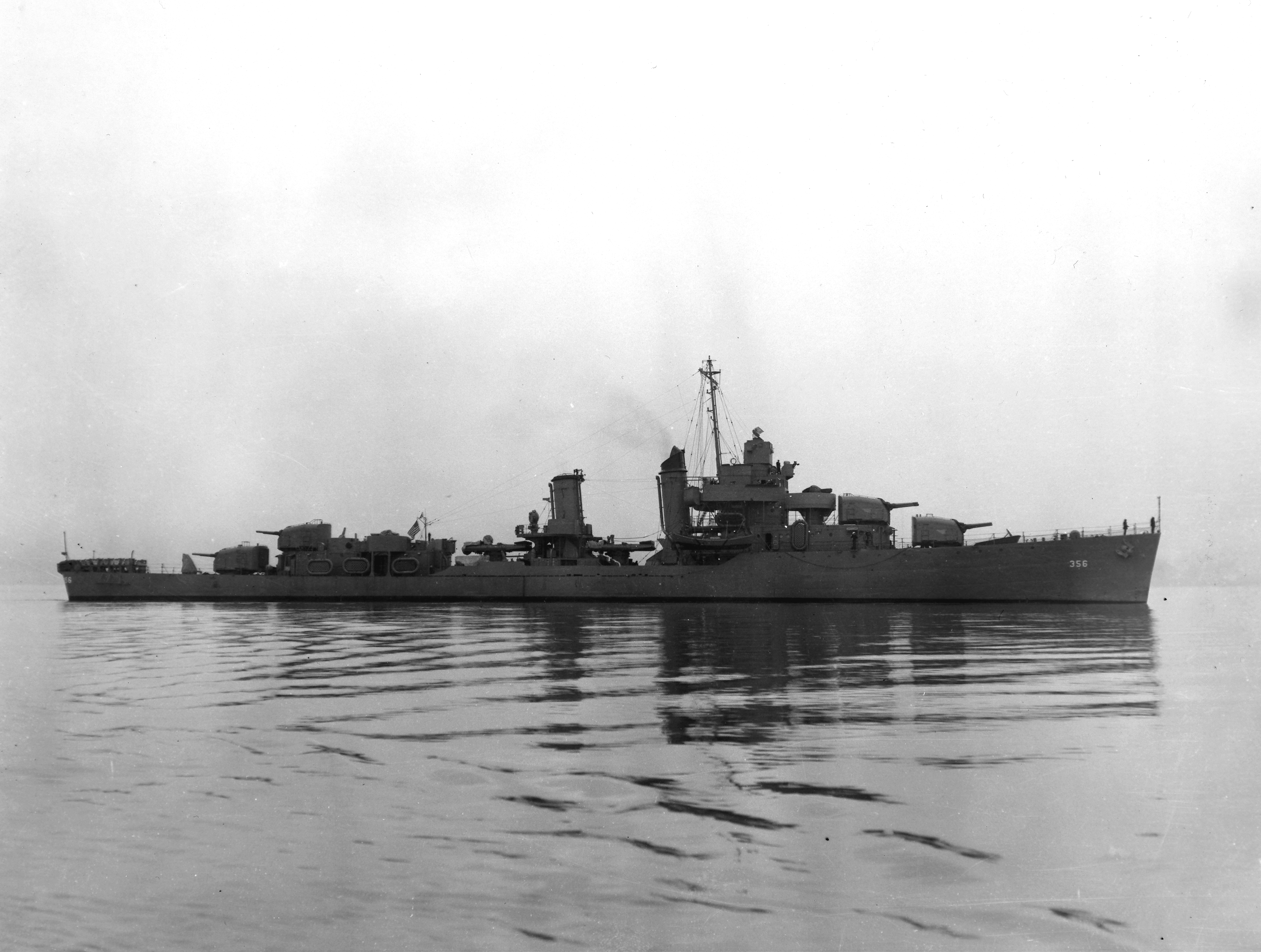 Off the Mare Island Navy Yard, California, 4 November 1941, following her last pre-war overhaul. Note that an FC radar antenna has been fitted to her main battery director. Her mast has been modified to receive the antenna for an SC radar set, but the antenna has not yet been installed. Photograph from the Bureau of Ships Collection in the U.S. National Archives.